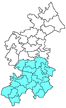 Vizianagaram revenue division in Vizianagaram district (in cyan color)